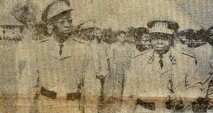 Colonel Joseph-Desiré Mobutu with President Joseph Kasa-Vubu (in his military uniform)